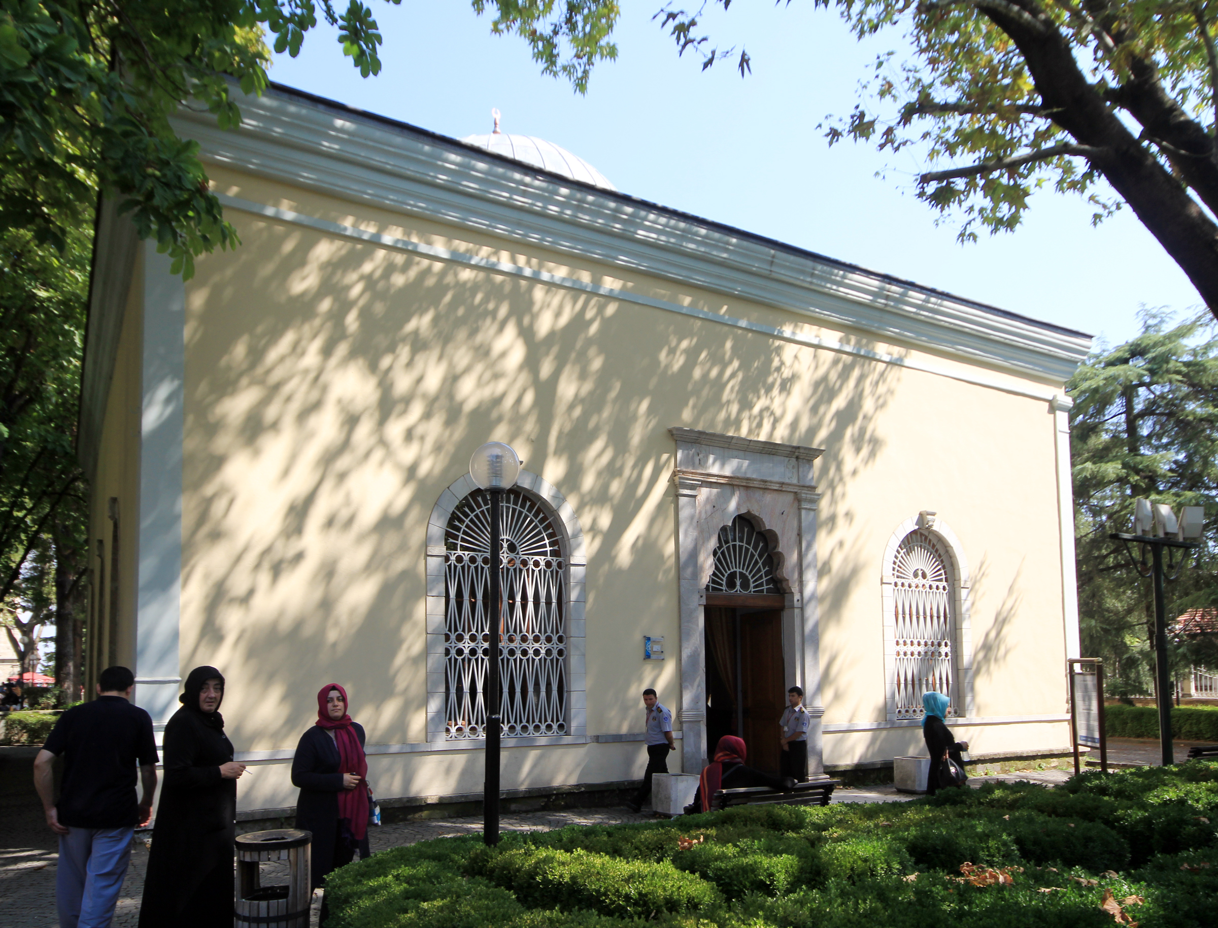 The building of tomb the second Osman sultan Orhan I. in Bursa city, Turkey